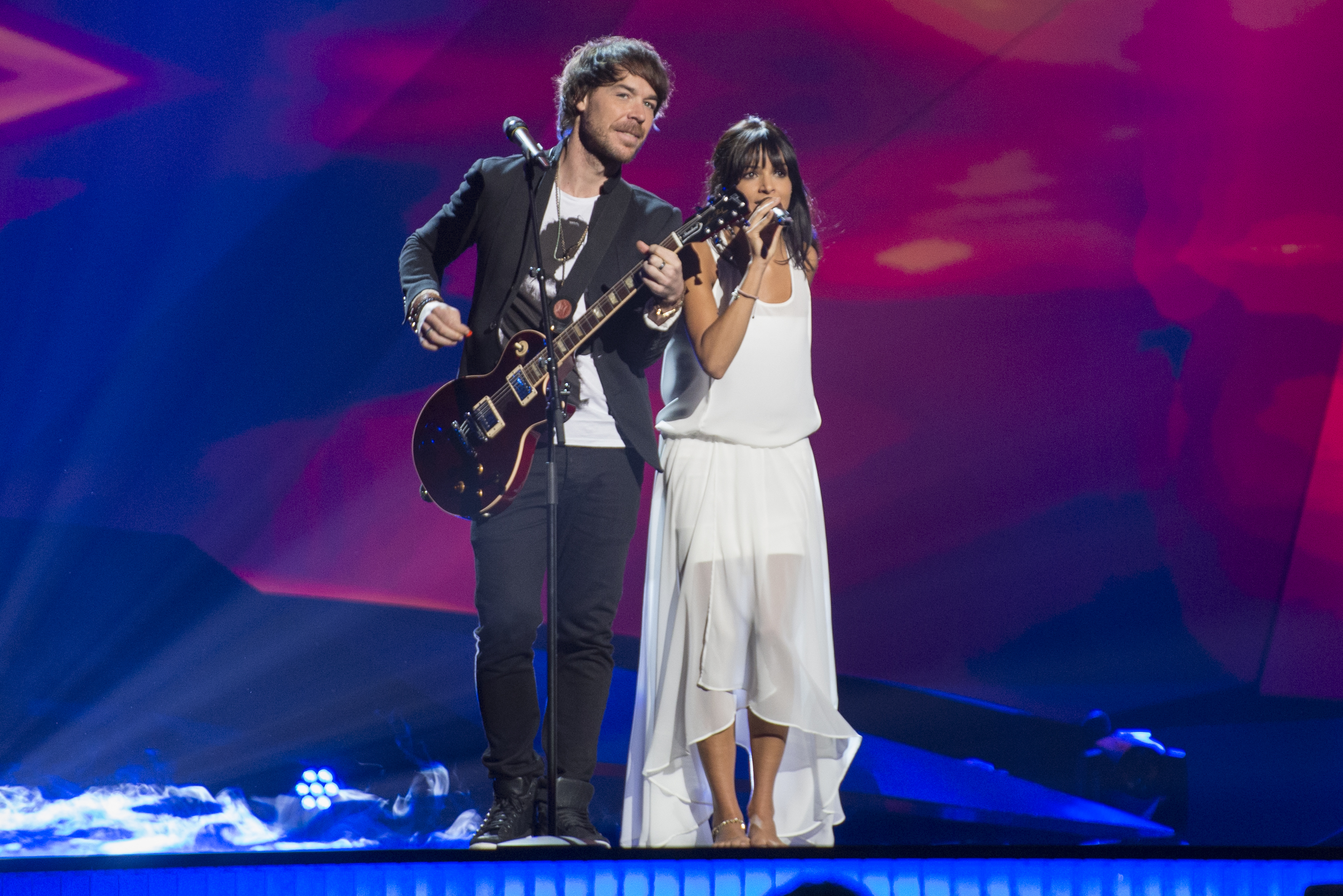 El Sueño de Morfeo representing Spain with the song "Contigo hasta el final" during the first dress rehearsal for "the Big Five" in the Eurovision Song Contest 2013 Malmö. (Help translate this text)